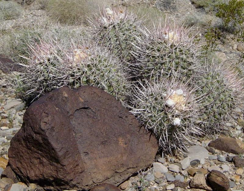 Cotton Top Cactus above Mesquite Springs Death Valley